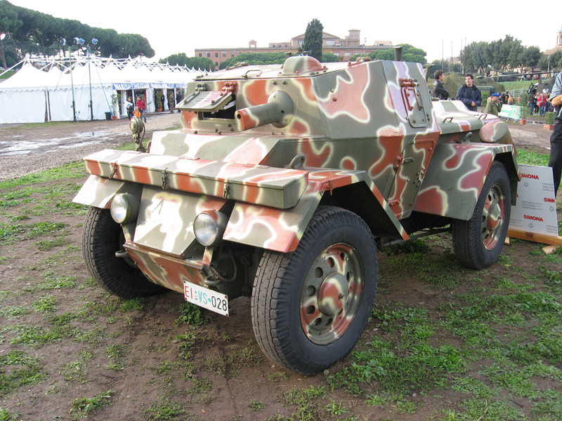 Lancia Astura Lince italian armored car of WWII. Photographed during Festa delle Forze Armate (Day of the Armed Forces) when the vehicle was in public exhibition at the Circus Maximus in Rome on 11 August 2008 (Note the registration as historical vehicle No.28 of the Italian Army)